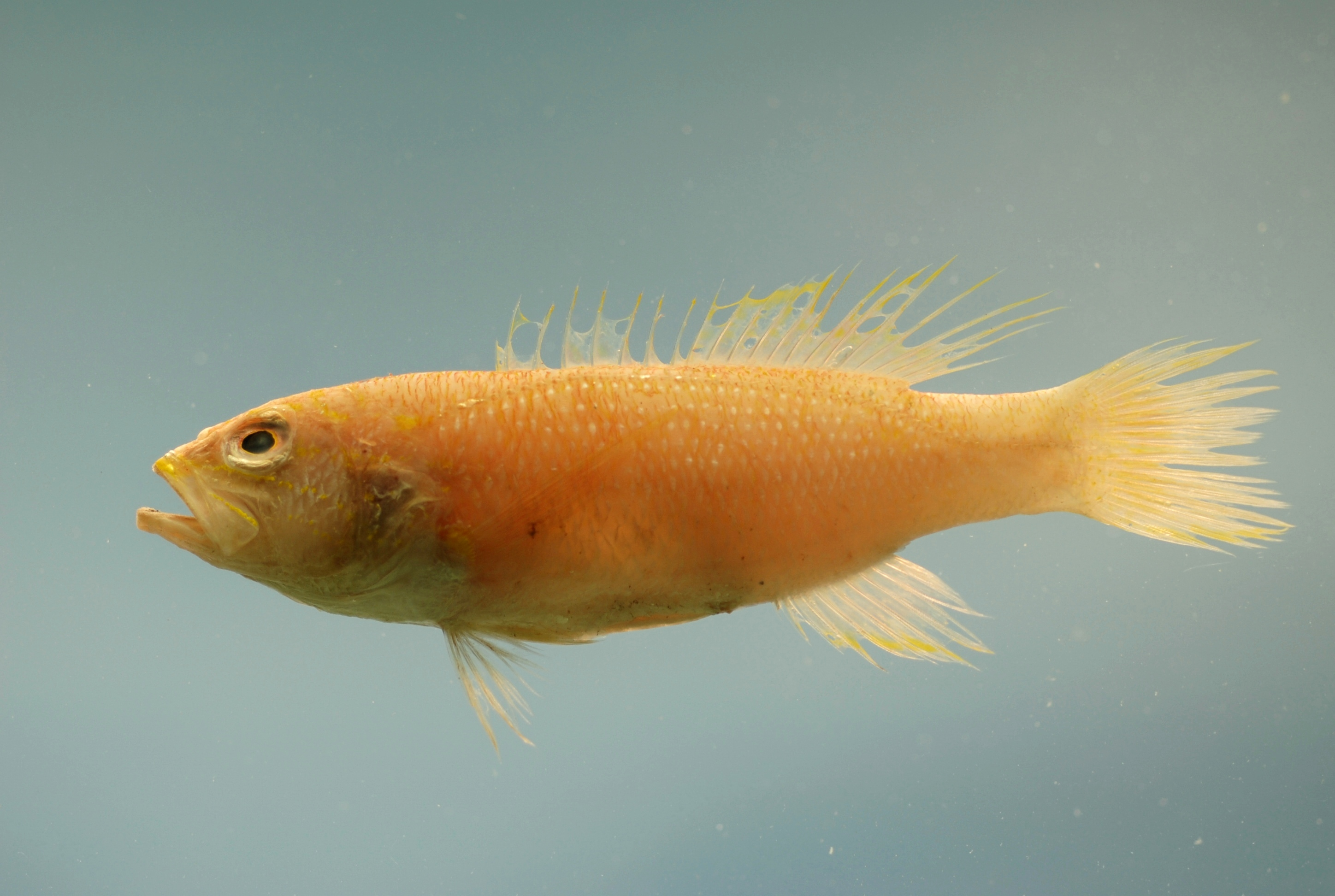 Yellowtail bass ( Bathyanthias mexicanus ). Gulf of Mexico.